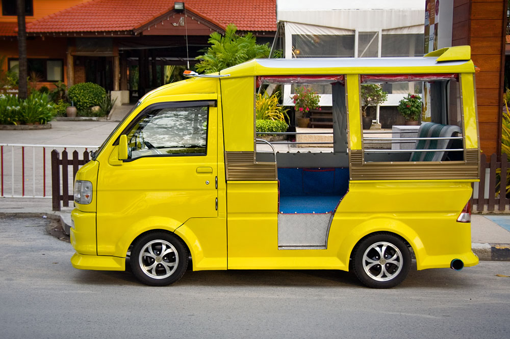 a yellow Tuk-Tuk on Thawiwong Road, Patong Beach, Phuket, Thailand